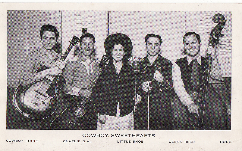 The Cowboy Sweethearts at radio station KLRA in Little Rock, Arkansas. Left to right: Cowboy Louie on guitar, Charlie Dial on guitar, "Little Shoe" (Charlie Dial's wife), Glenn Reed on fiddle and bass fiddle player Doug ?.